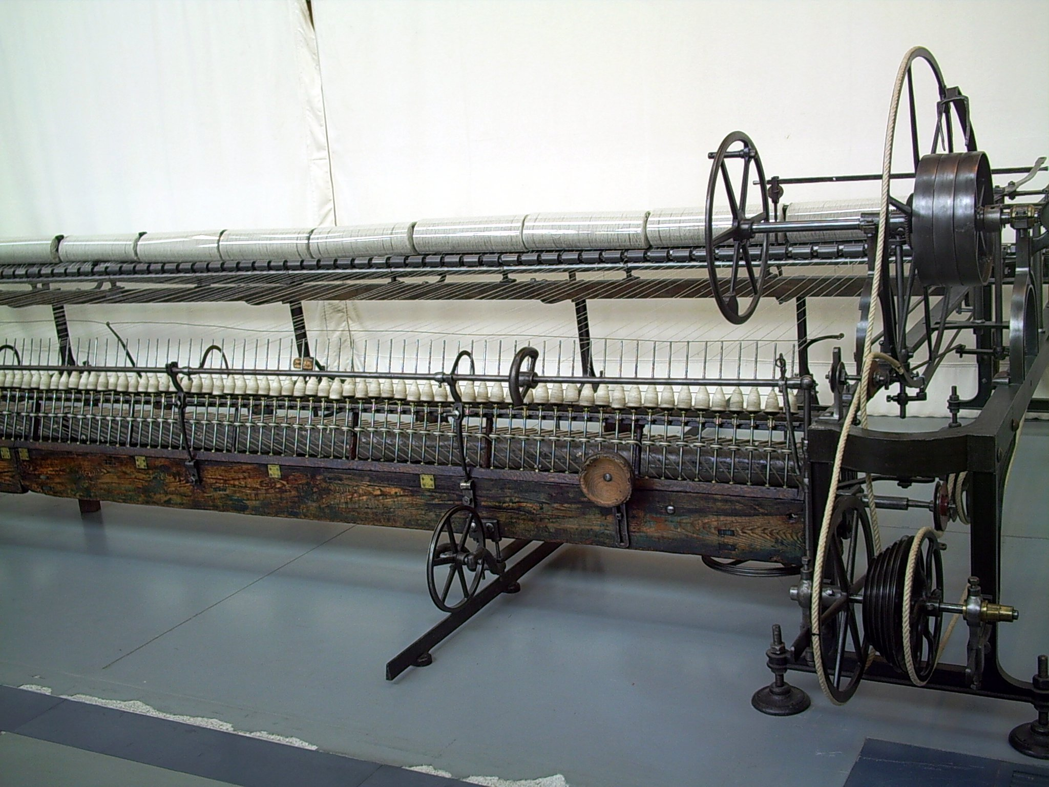 Mule, at the mNATECT, Terrassa, (Catalunya).